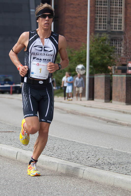 The Australian triathlete Tim Berkel at Christians Brygge, Copenhagen, Denmark at Challenge Copenhagen 2011.